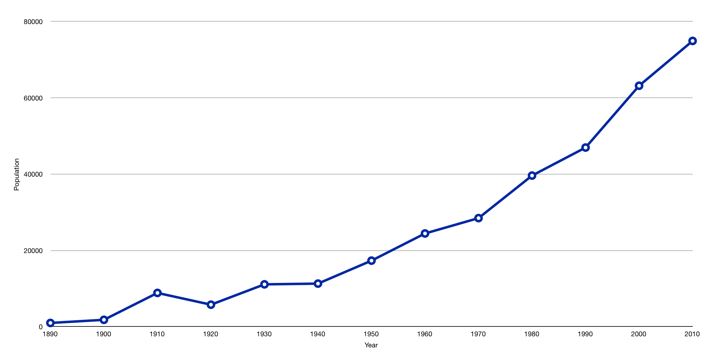 Medford's population, Oregon, (1890-2010). Based on U.S. Census Bureau data.